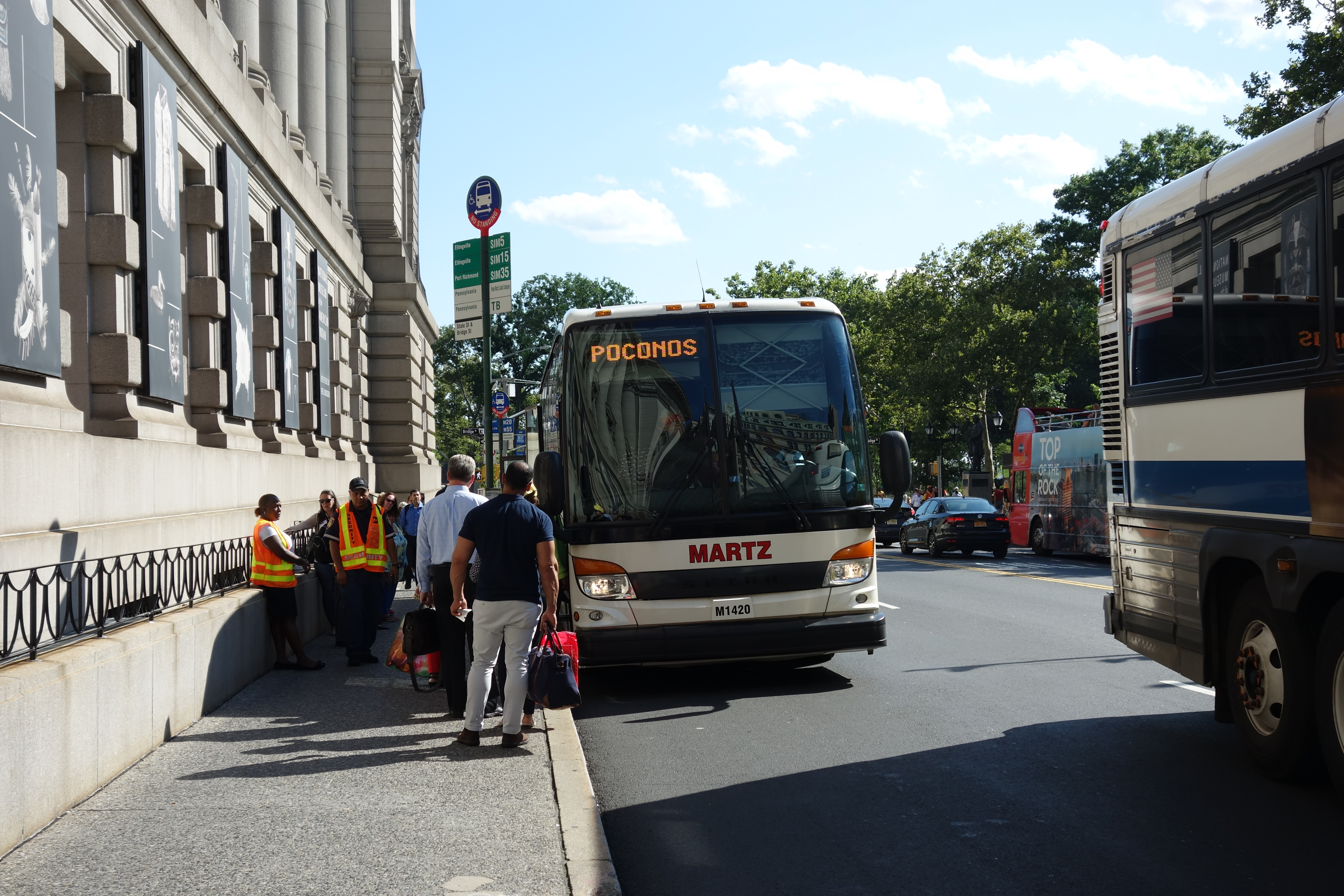 A Martz Trailways bus to the Poconos picking up a long line of passengers at State Street and Battery Place in the Financial District, Manhattan.